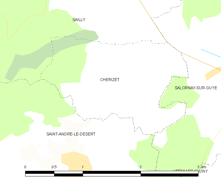 Map of French municipality